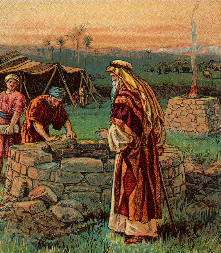 Isaac, A Lover of Peace; as in Genesis 26:12-25; illustration from a Bible card published 1906 by the Providence Lithograph Company